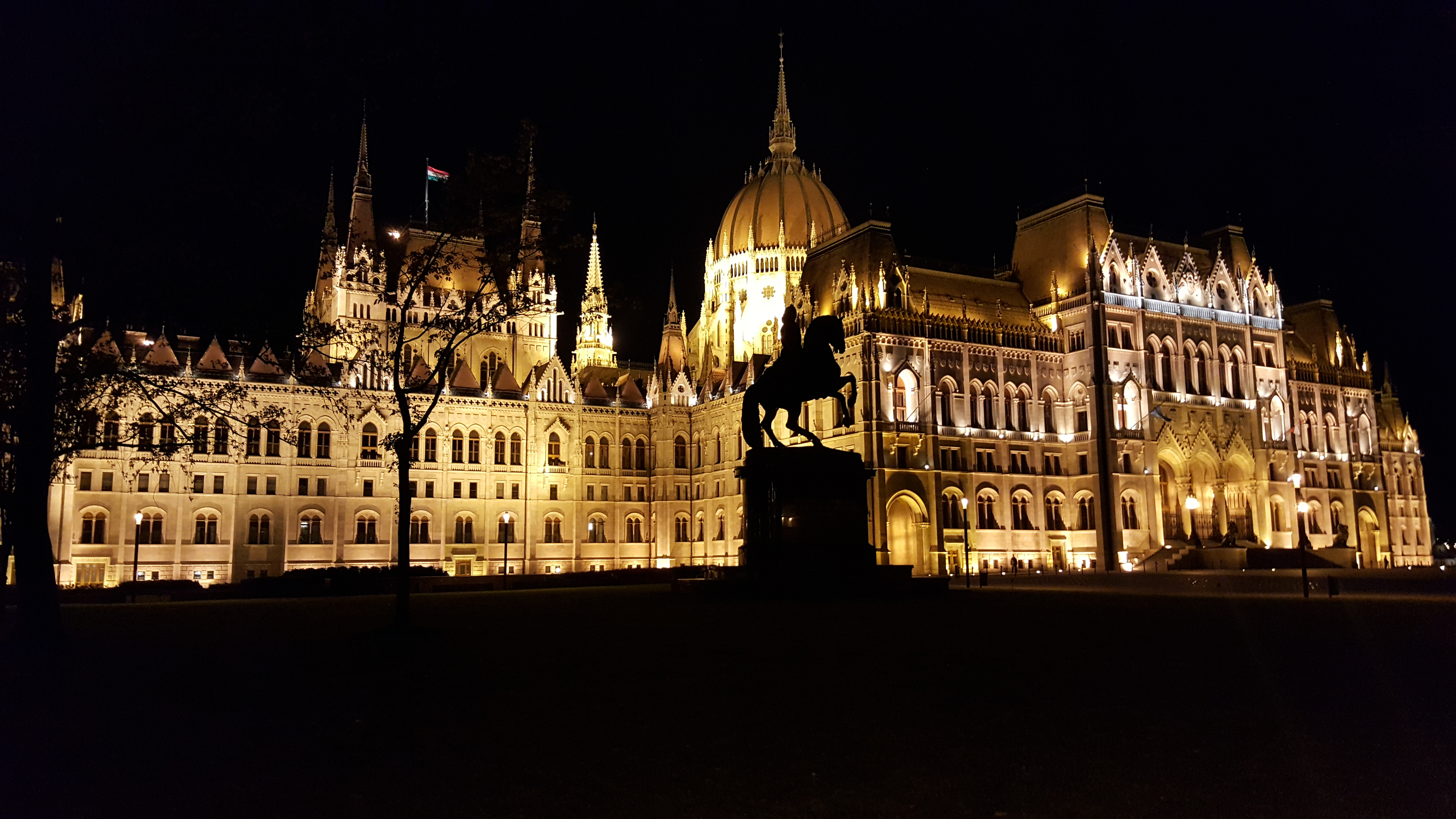 The backside Parliament Building at night.